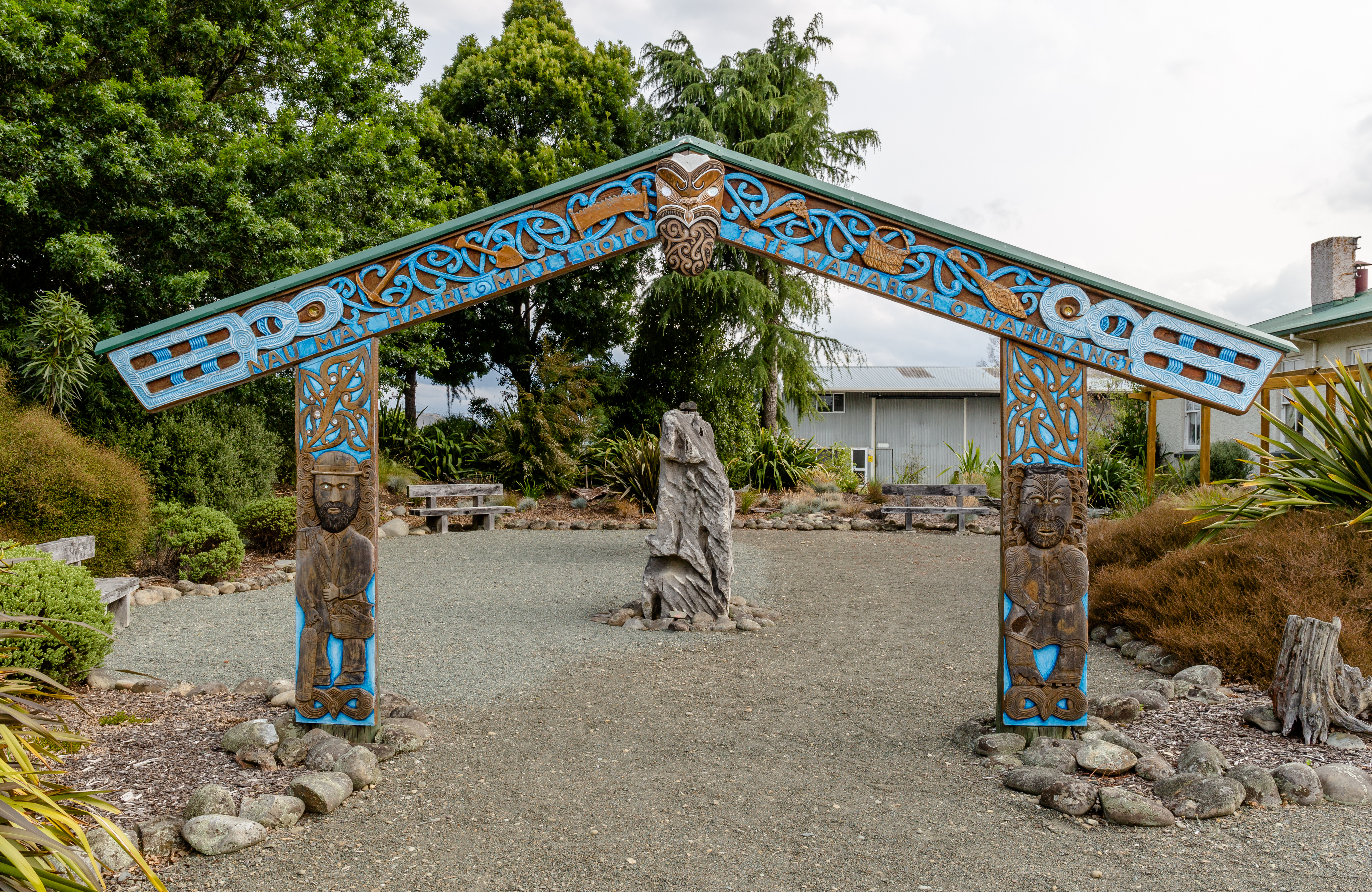 Gateway of Kahurangi with Kaitiaki rock in the middle, Tapawera, New Zealand. The gateway depicts: Left amo (amo = vertical support): Thomas Brunner with kowhaiwhai above his head signifying rivers, valleys and flora of Wangapeka Right amo: E Kehu (right column) who was a Māori guide who led Charles Heaphy and Brunner through what's now Kahurangi National Park. Above his head is kowhaiwhai again (see above) signifying Wangapeka Track and Wangapeka River Left maihi (mahi = diagonal board): tools related to Tapawera industry like a pick and a shovel (mining along Wangapeka Track) and a saw representing local forestry Right maihi: kai (weaved basked) signifies locally grown kai berries and other produce, and other tools Middle part of maihi: the head signifies kaitiaki, the guardian who overlooks blue rivers of Kahurangi. The white colour on his head signifies Maunga Whare papa/Mount Arthur The blue colour points to the fact that one of the meanings of "kahurangi" is "colour of the sky"